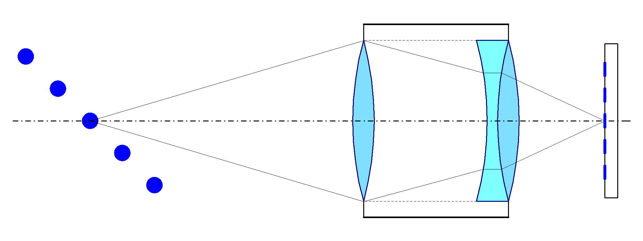 Set-up for determination of back and front focus